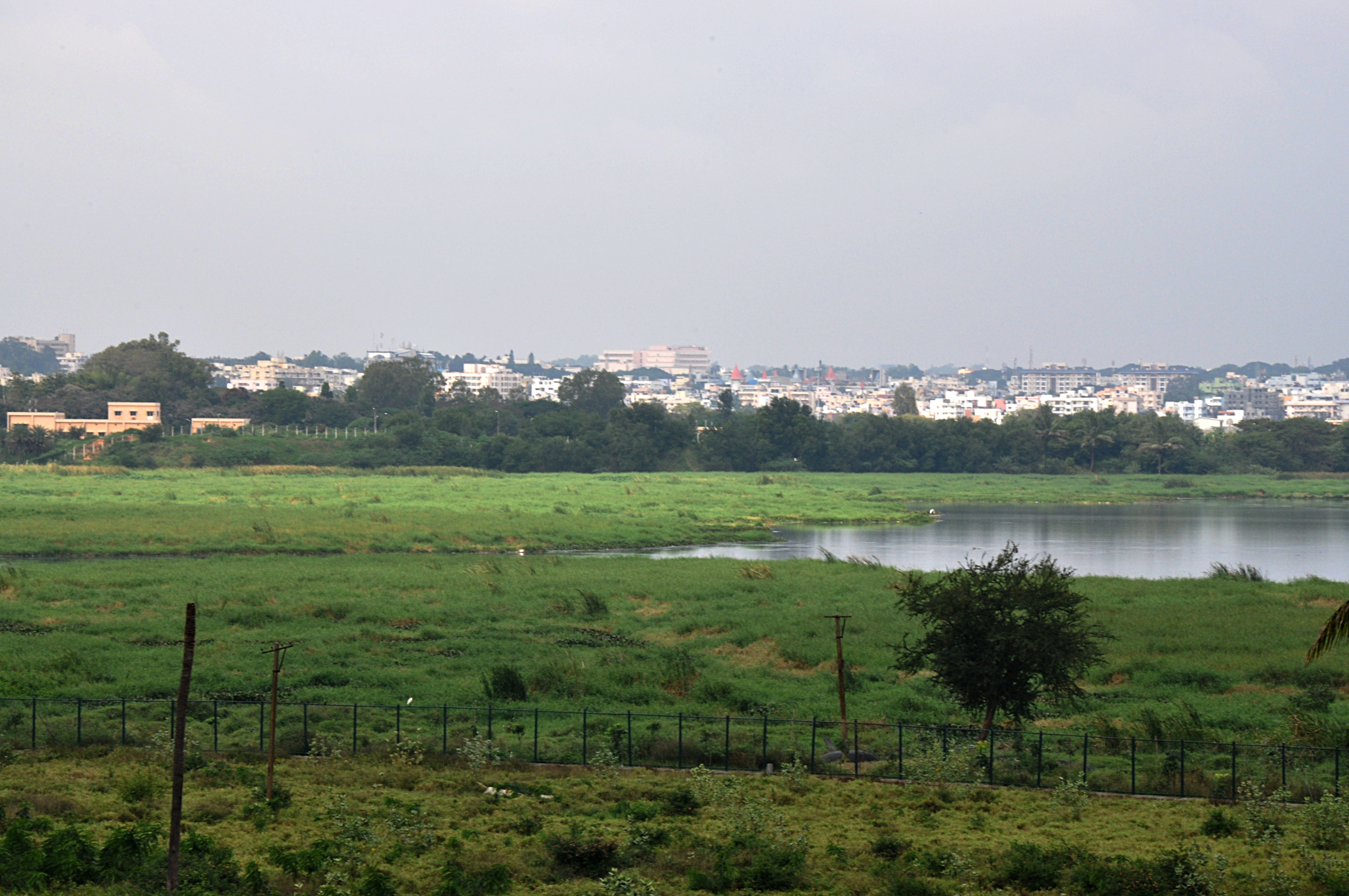 An imbalance in the lake's nitrogen and potassium level due to sewage dumping has effected the plant cover of the lake. These pollutants-nutrients encourage the constant growth of plants over the lake surface, reducing oxygen levels and killing fish as well as other aquatic life. Local villagers manually remove the plant on a daily basis to clear the lake's surface.